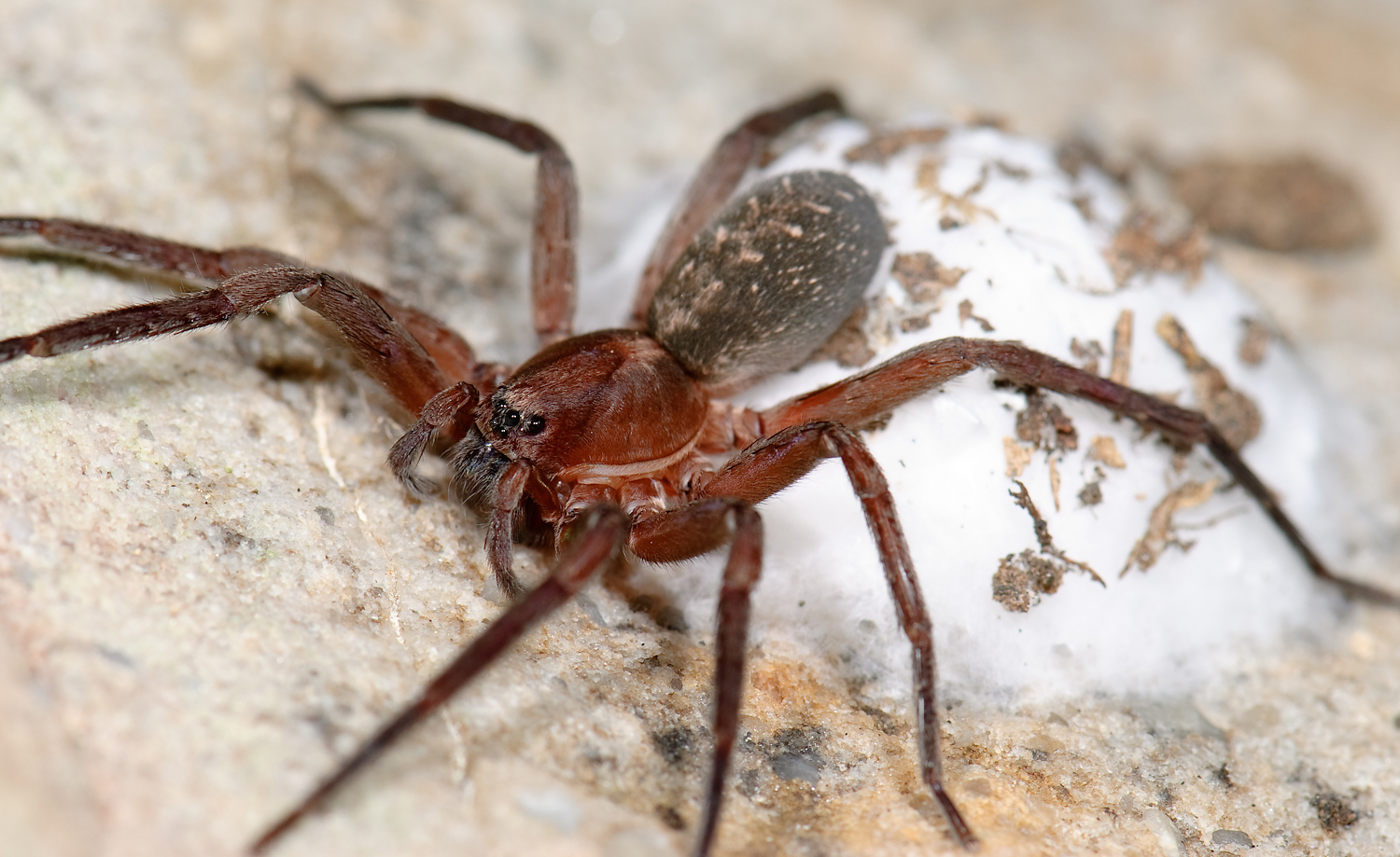 Ctenus exlineae (Ctenidae), female protecting eggsac, found under large rock, photographed in situ